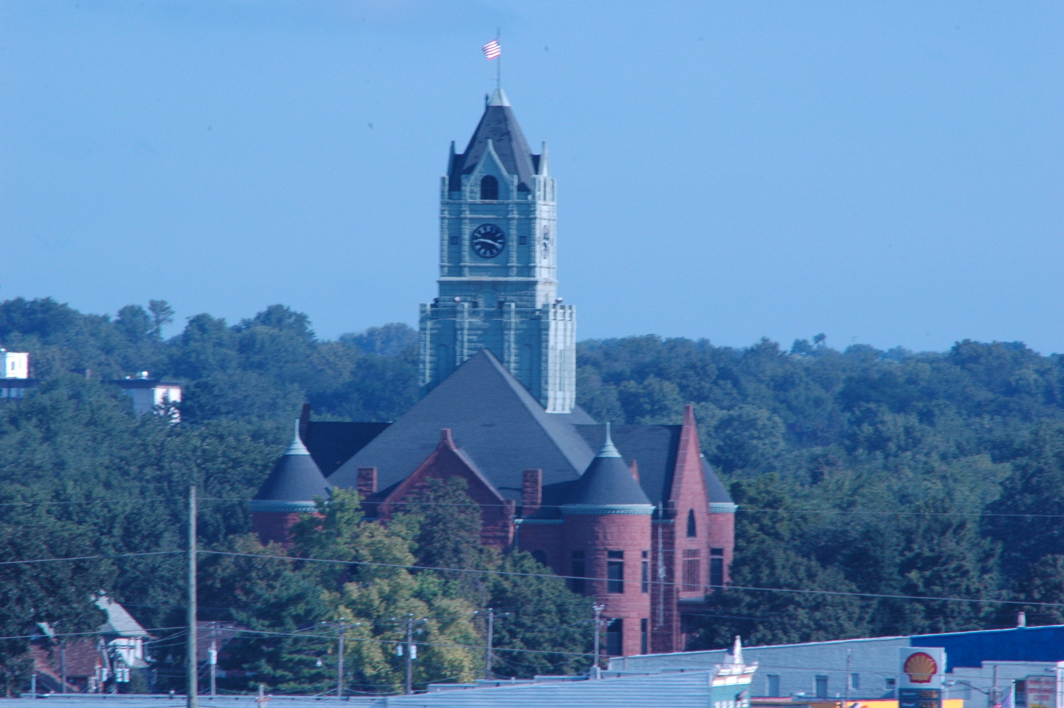 Clinton County Courthouse, National Register of Historic Places